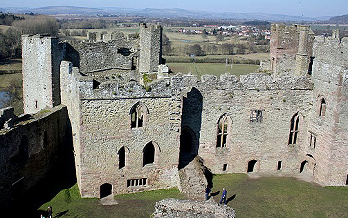 Trimmed back to show the Great Hall and Solar block